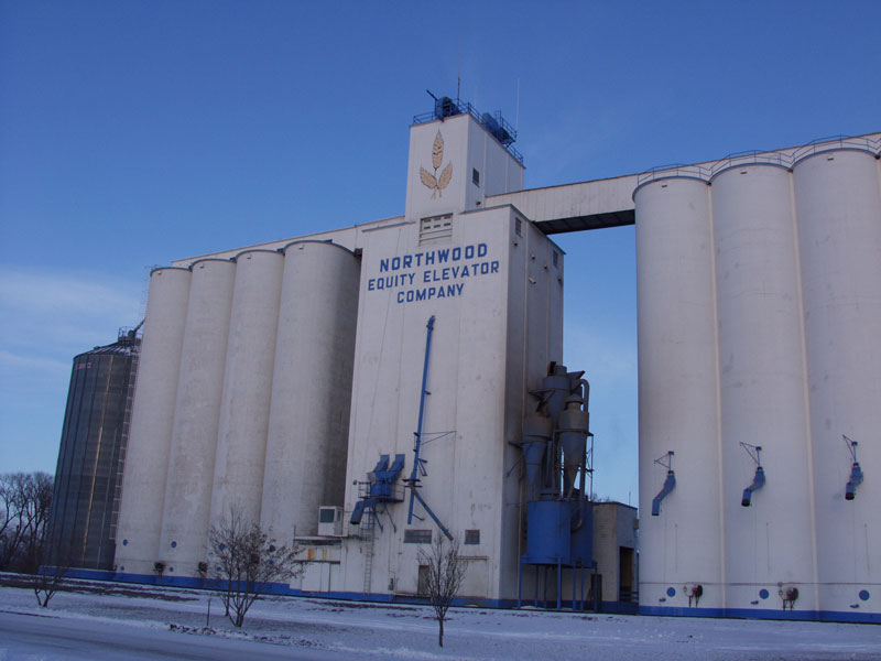 Northwood, North Dakota. From .